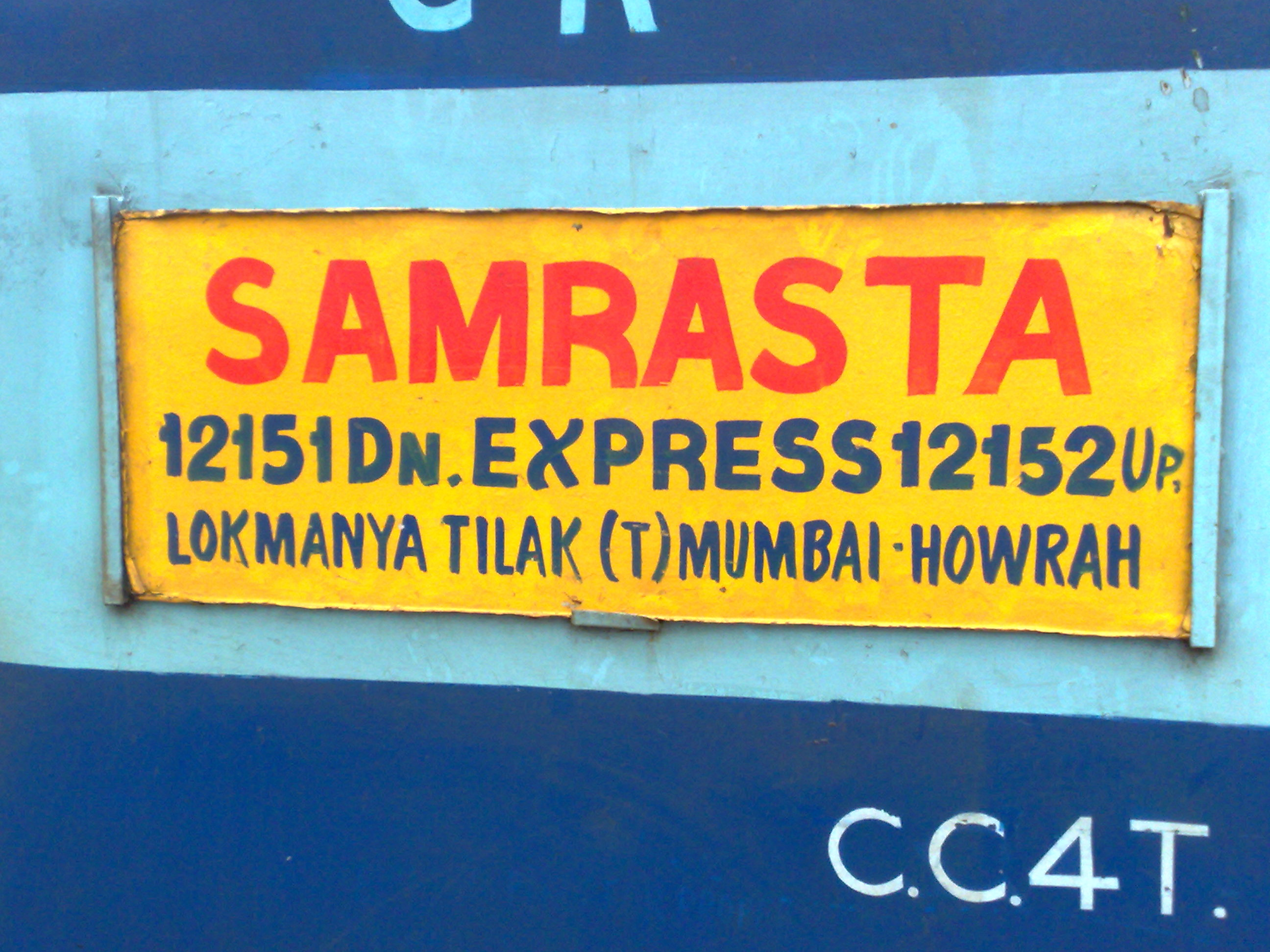 Samarsata Express